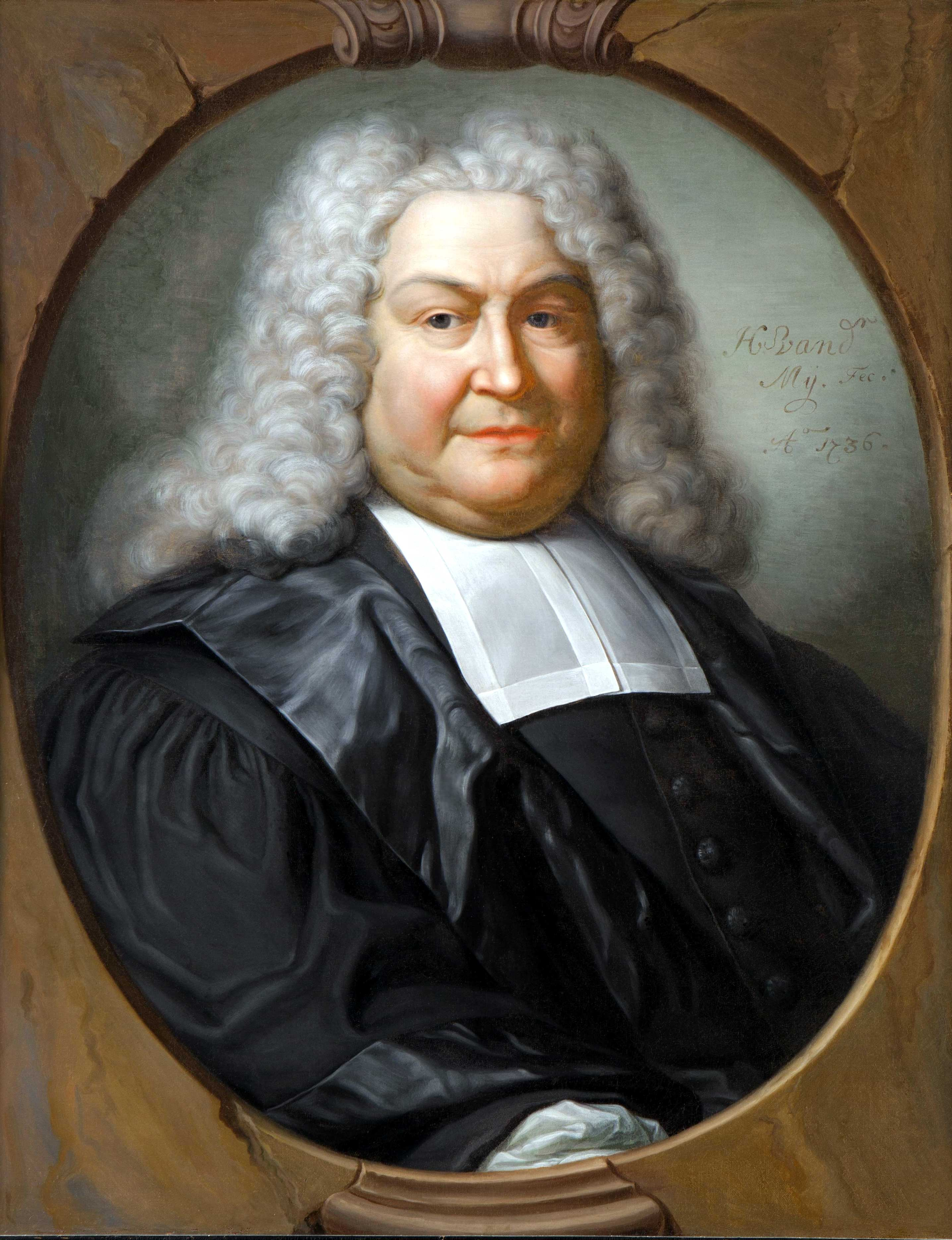 Taco Hajo van den Honert (1666-1740) German Reformed theologian